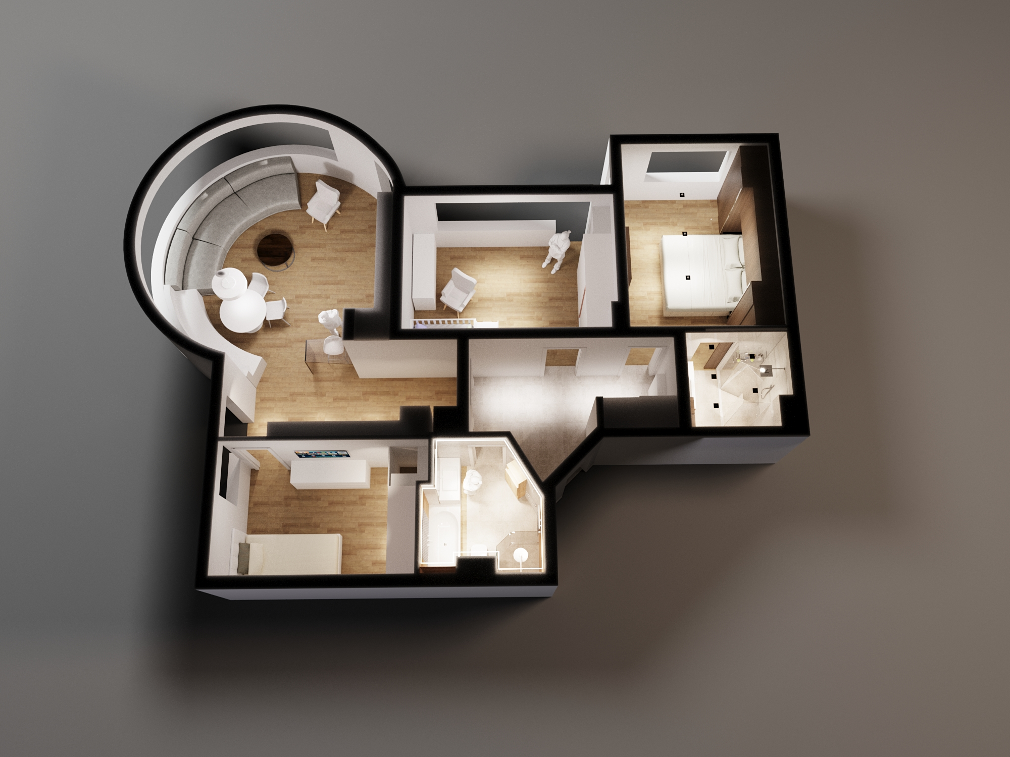 3D floor plan (coloured) of apartment